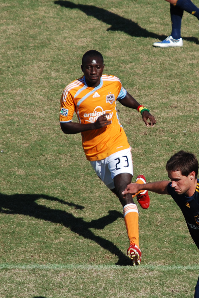 Dominic Oduro of Houston Dynamo at home against LA.